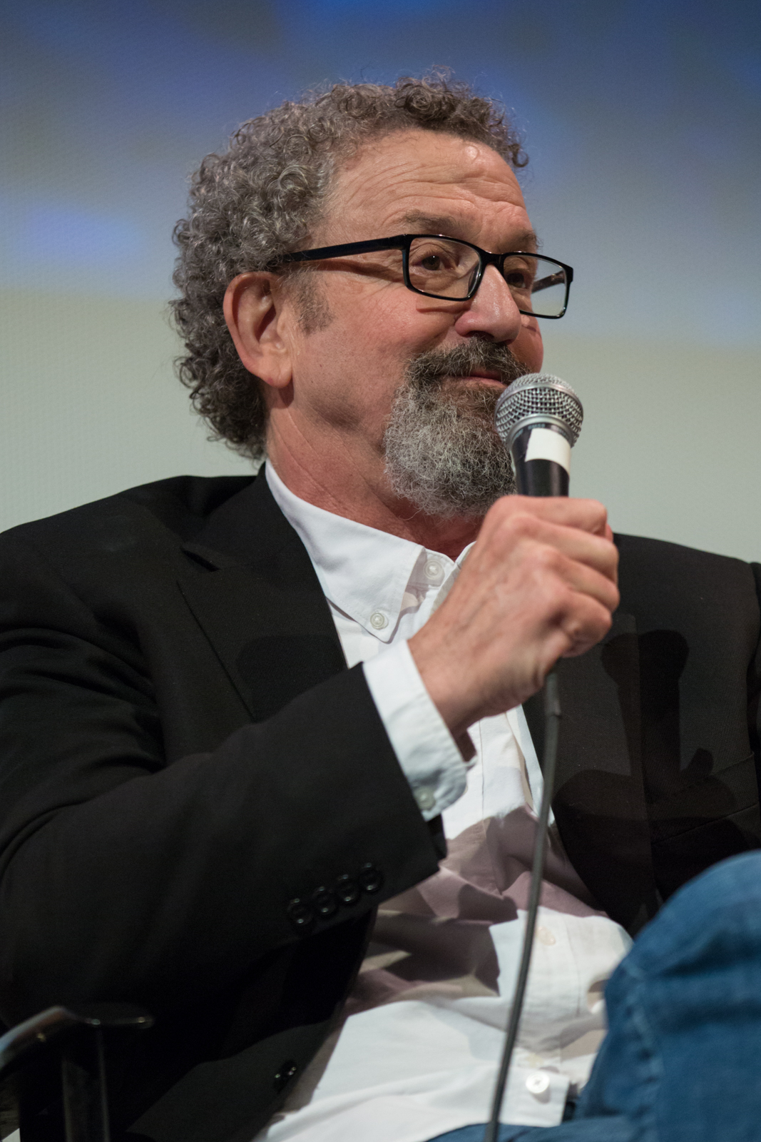 ATX Television Festival: Season 5 (2016)